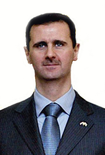 President Bashar al-Assad of Syria. Original background removed.